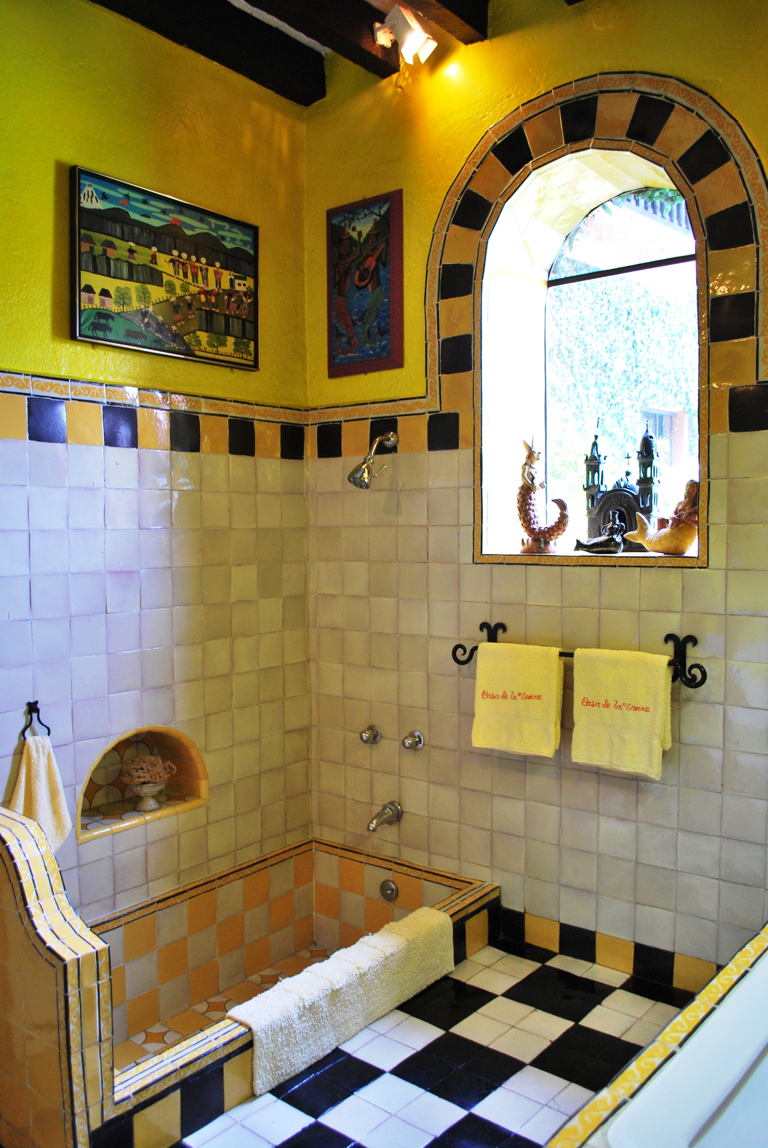 The "Yellow Bathroom" of the Robert Brady Museum/Casa Torres on Nezahualcoyotl Street in Cuernavaca, Morelos, Mexico. The building was originally part of the monastery of La Asunción. Purchased by U.S. artist Robert Brady in 1960 and transformed into his home and private art museum.